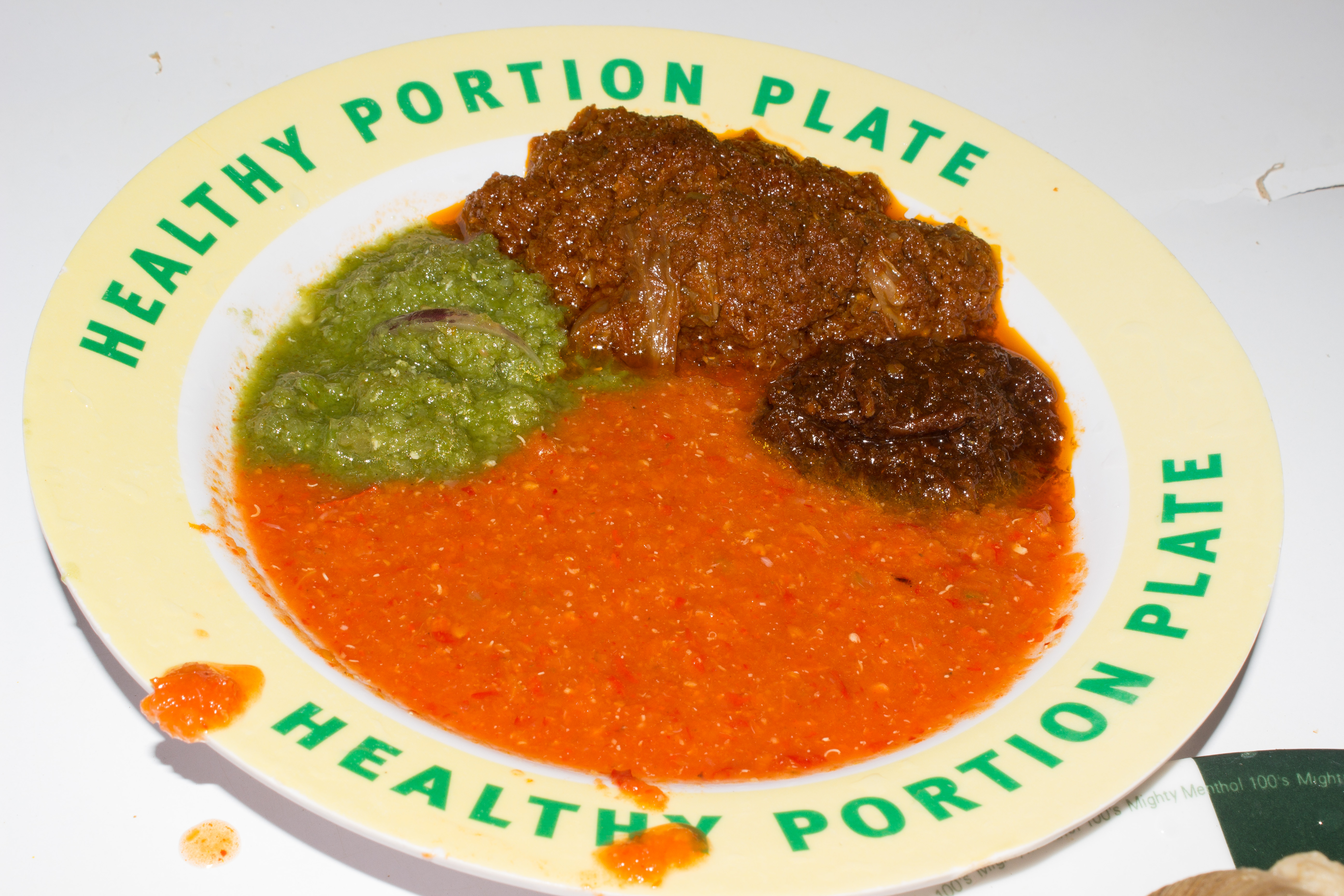 This is an image of food from Ghana